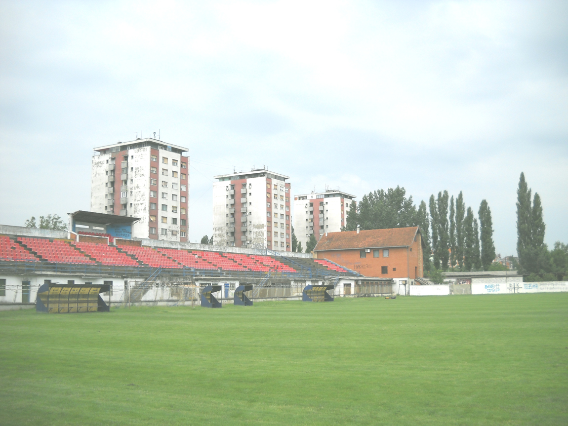 FK Novi Sad football stadium in Detelinara / Industrijska Zona Jug neighborhood in Novi Sad.